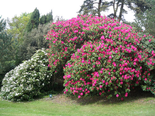 A shrub of rhododendron in le Bois des Moutiers0